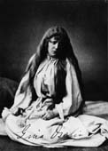 Norwegian opera singer Gina Oselio, pictured in late June 1887 at Her Majesty's Theatre in London where she was Marguerite and Helen of Troy in Arrigo Boitos play Mefistofele.